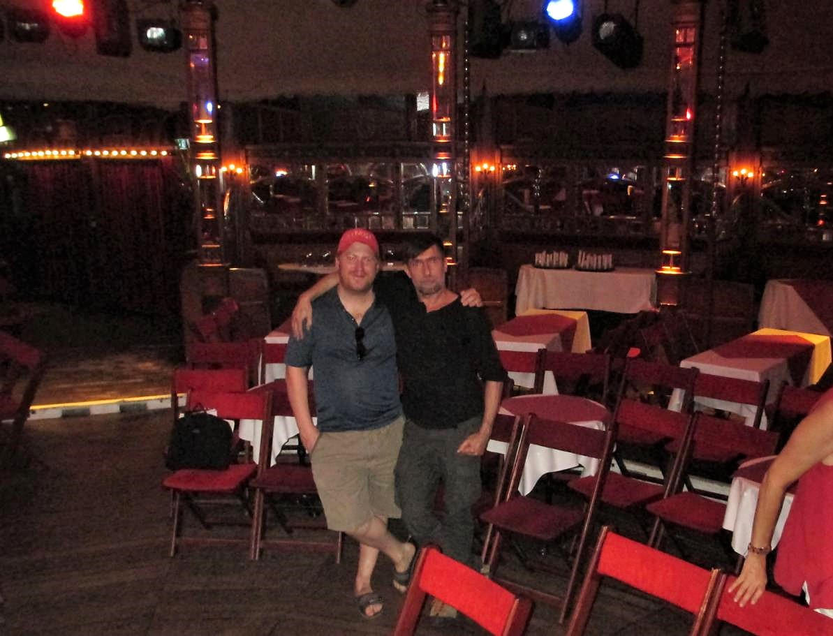 Emil Eikner and venue's creative director Lutz DeisingerPlace: Bar jeder Vernunft, Berlin, Germany